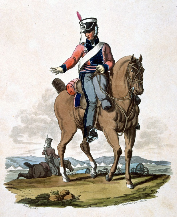 Cavalry Staff Corps 1813 work